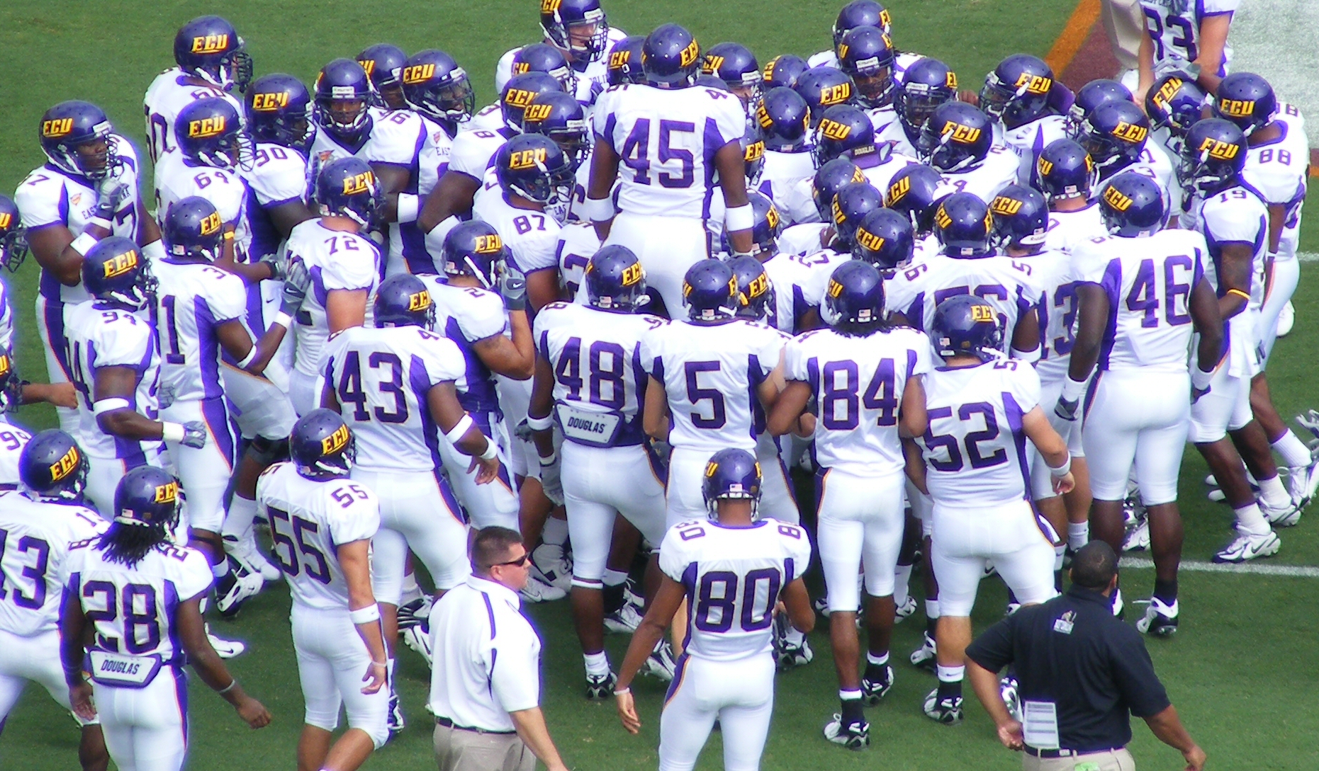 The East Carolina University Pirates travel to Blacksburg, Virginia to take on the 2007 Virginia Tech Hokies football team